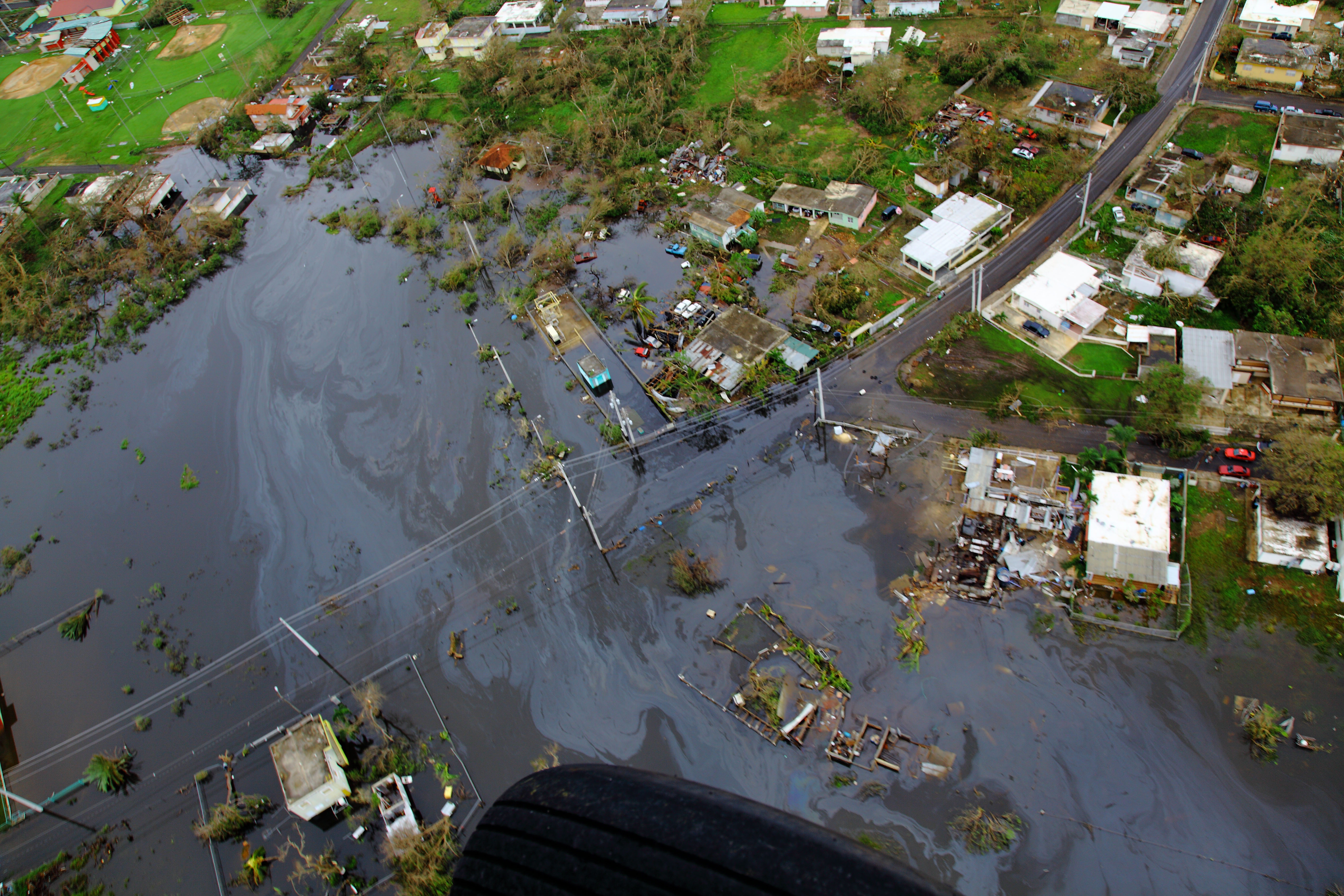 Homes lay in ruin as seen from a U.S. Customs and Border Protection, Air and Marine Operations, Black Hawk during a flyover of Puerto Rico after Hurricane Maria September 23, 2017. U.S. Customs and Border Protection photo by Kris Grogan